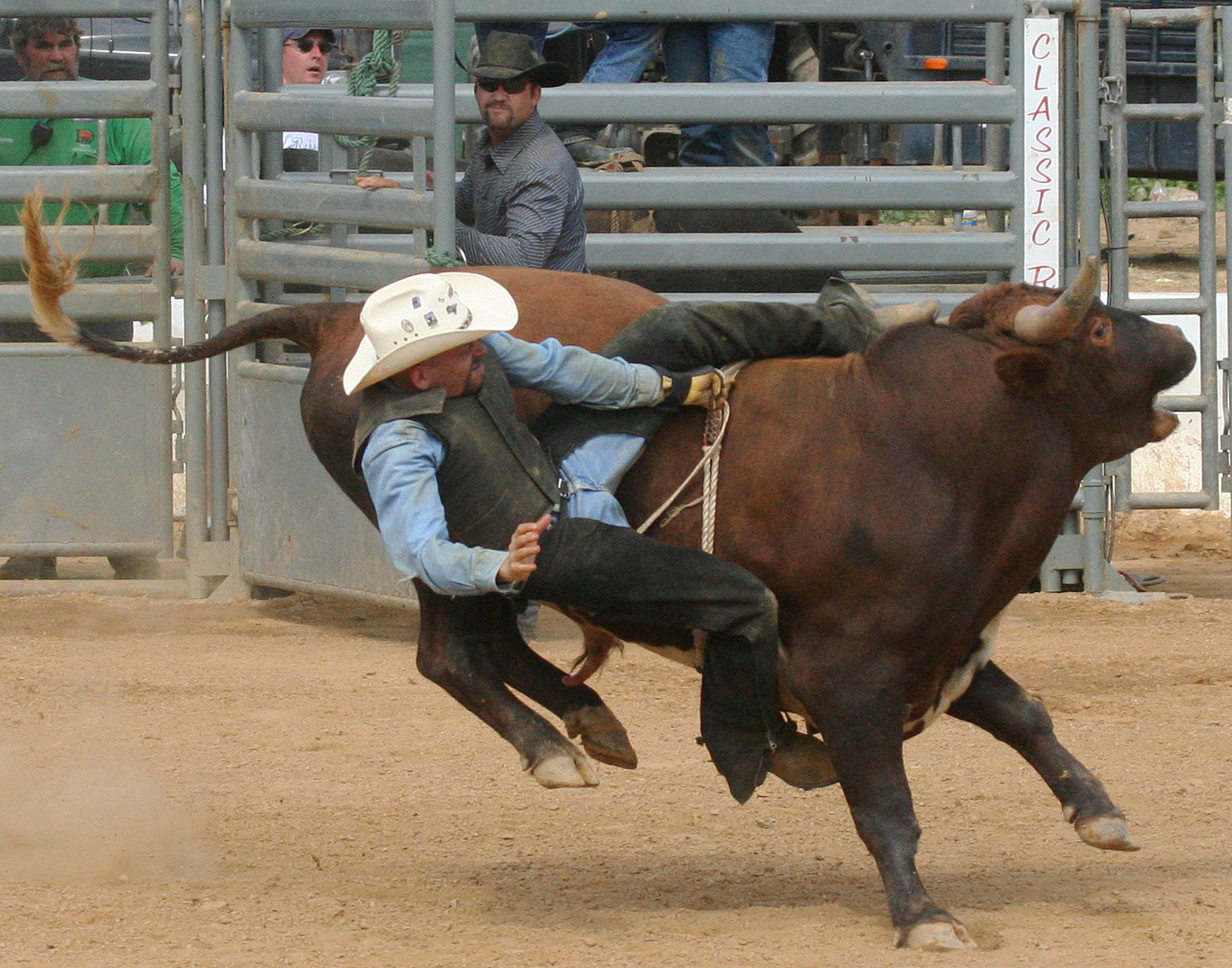 A bull rider at the 2007 Atlantic Stampede, an annual rodeo event organized by the Atlantic States Gay Rodeo Association. The sporting events take place in Gaithersburg, Maryland, while the host hotel is usually located in Washington, D.C.